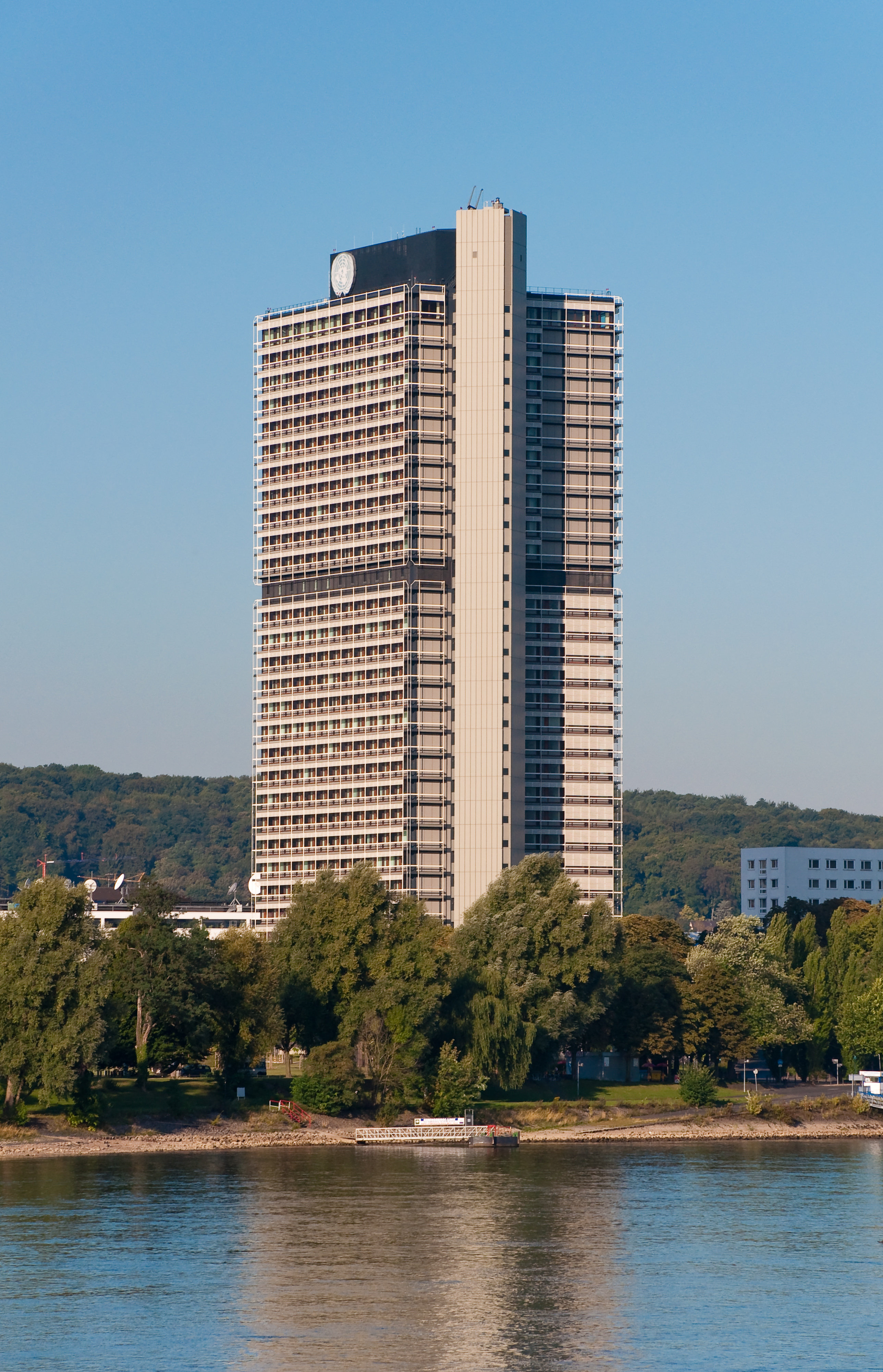 The so-called "Langer Eugen", headquarters of the UN campus in Bonn